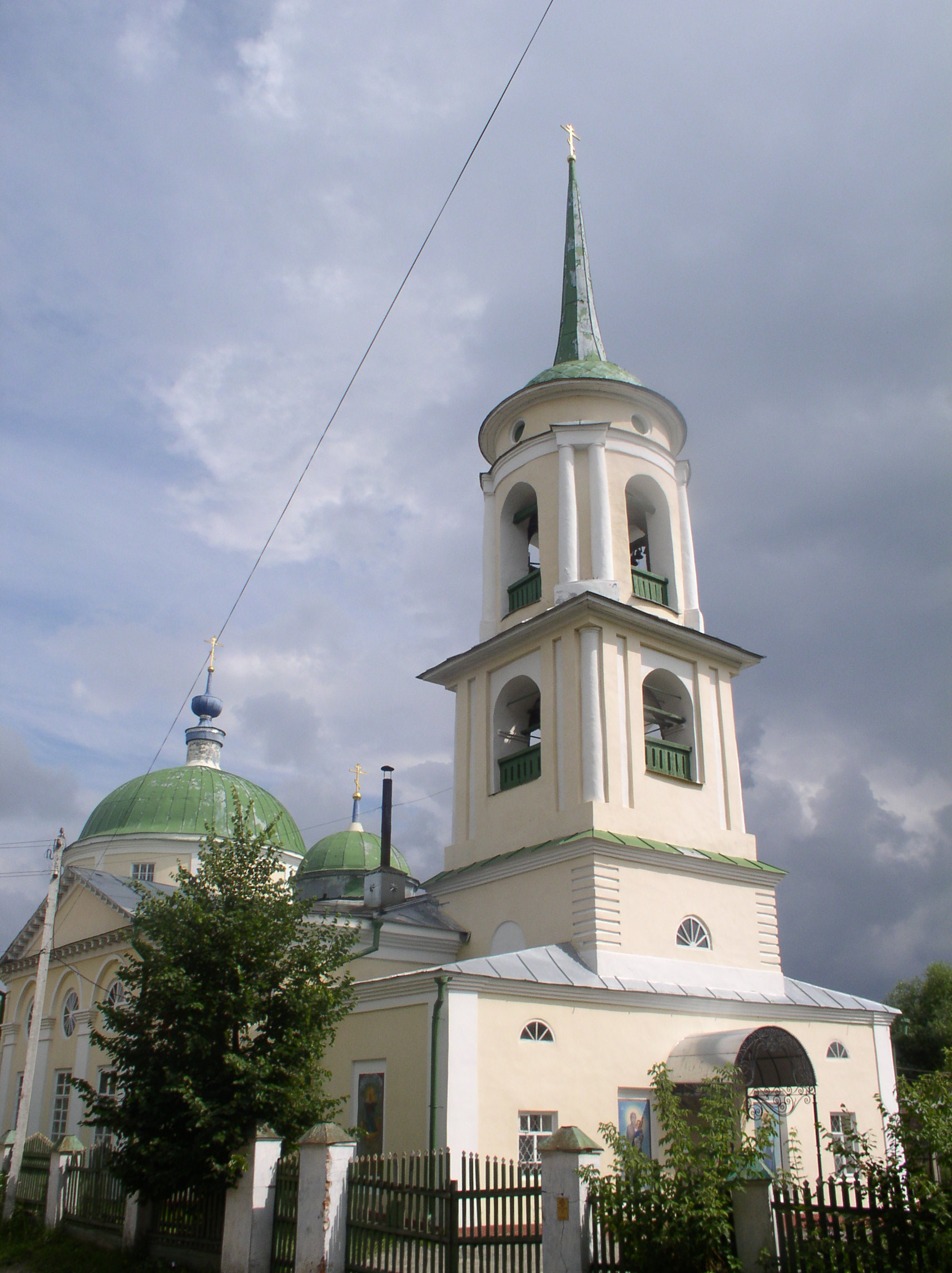 Kozelsk, Annunciation Church (1810).